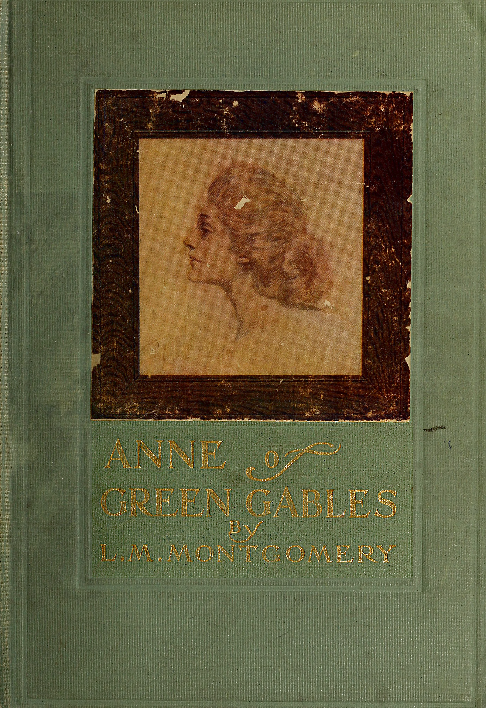 Cover page of the book Anne of Green Gables (1909)